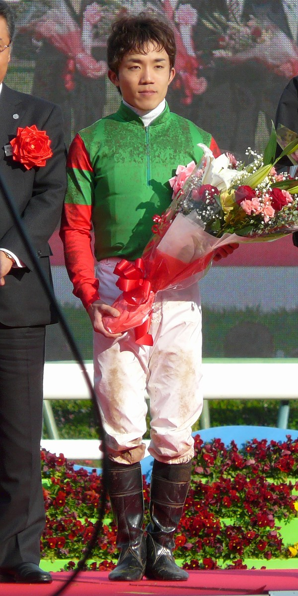 Yosuke-Kouno20100417